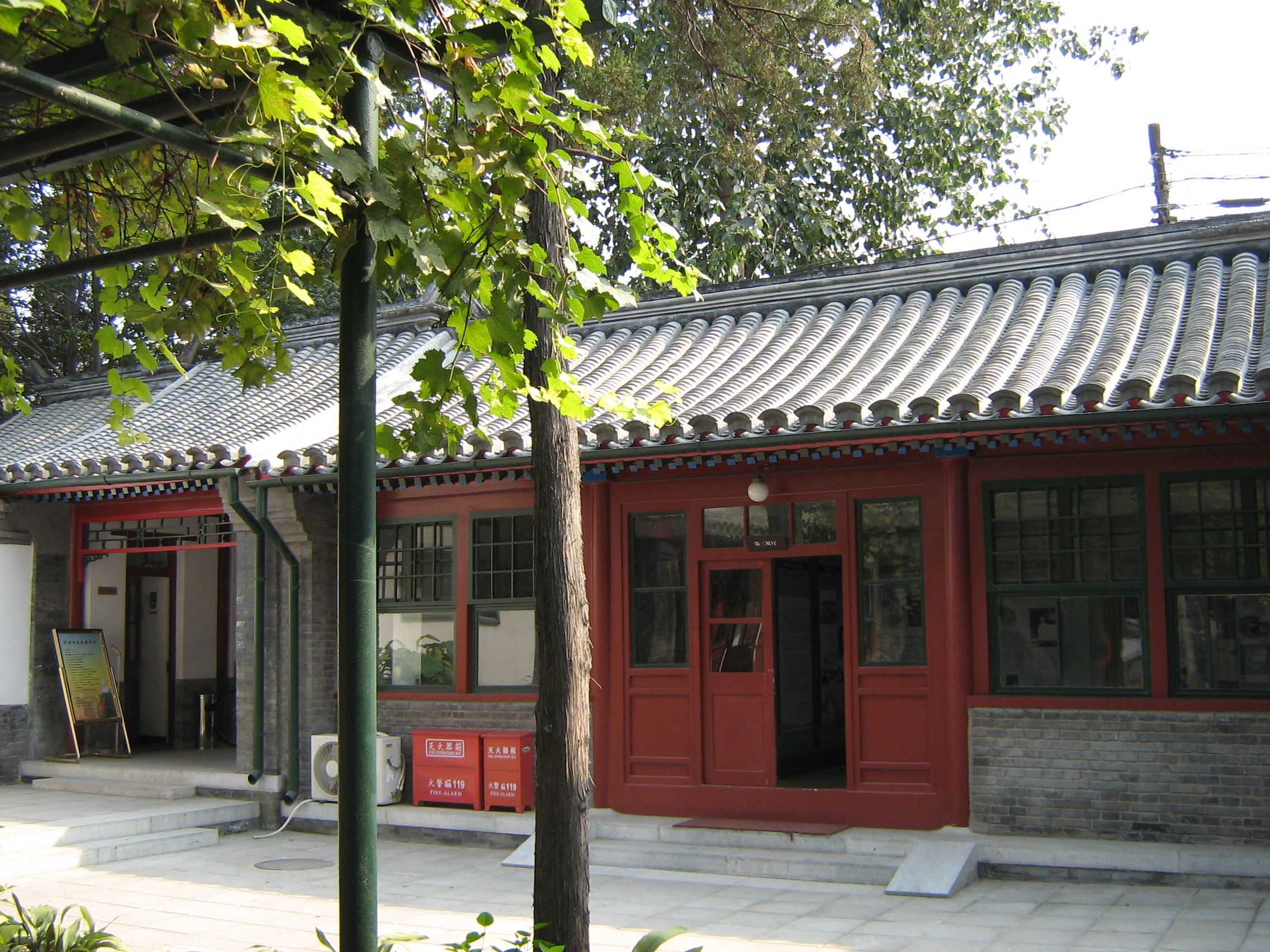 inner side of the Daozuofang in Mao Dun Guju, Beijing. The left side is the Gate of the Siheyuan